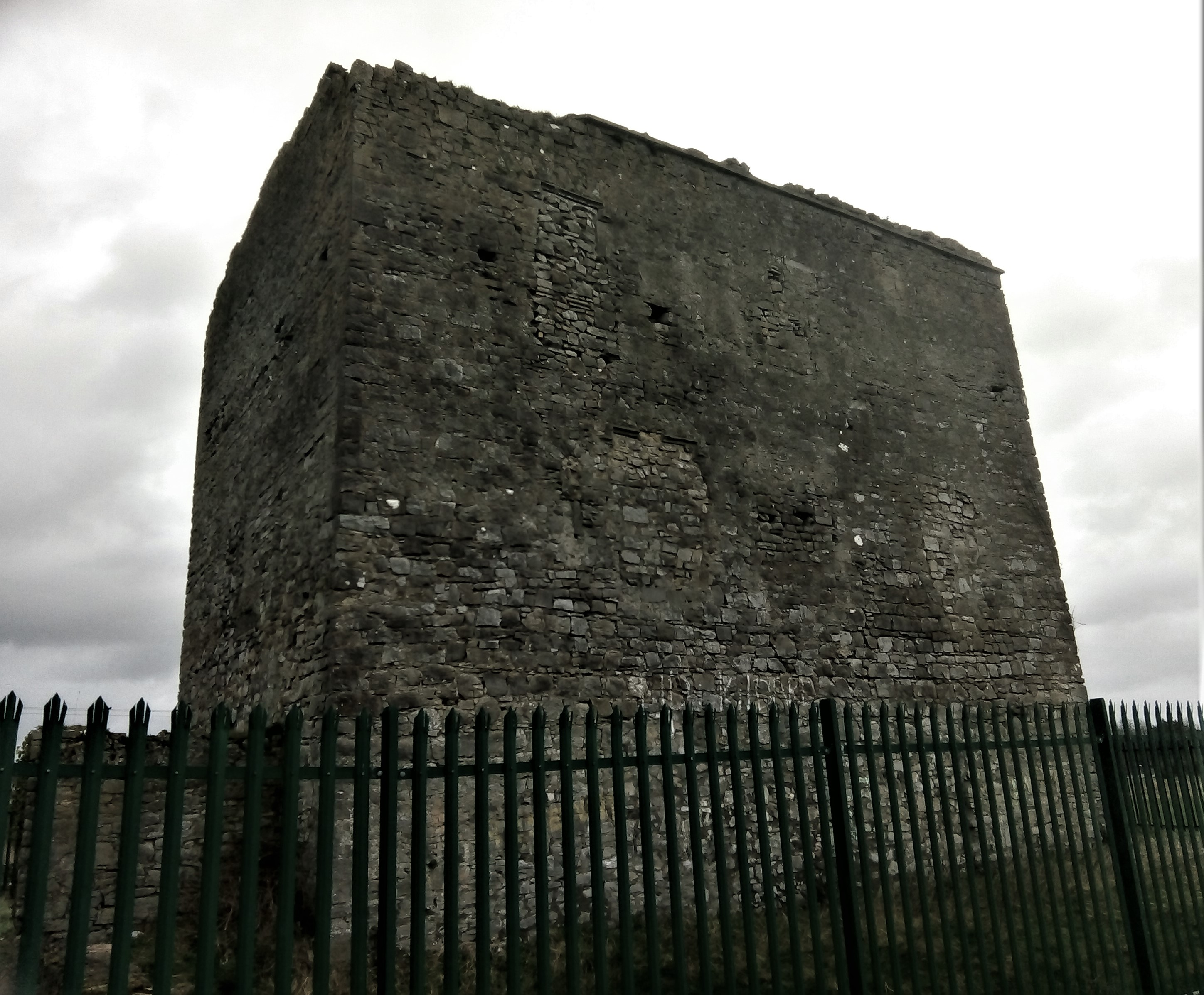 Woodstock Castle, Athy